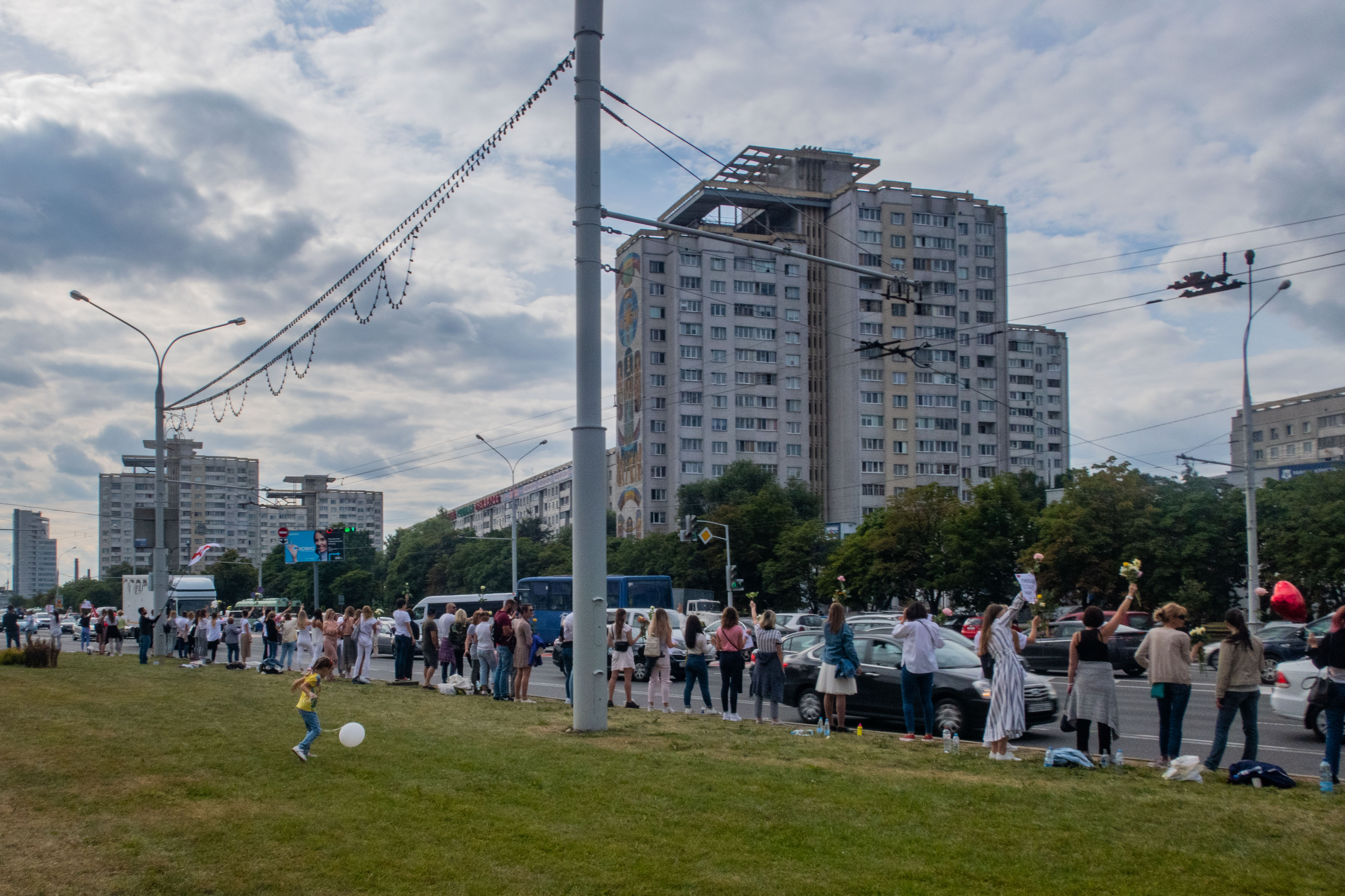 Local line of solidarity during mass protests. Minsk, Belarus